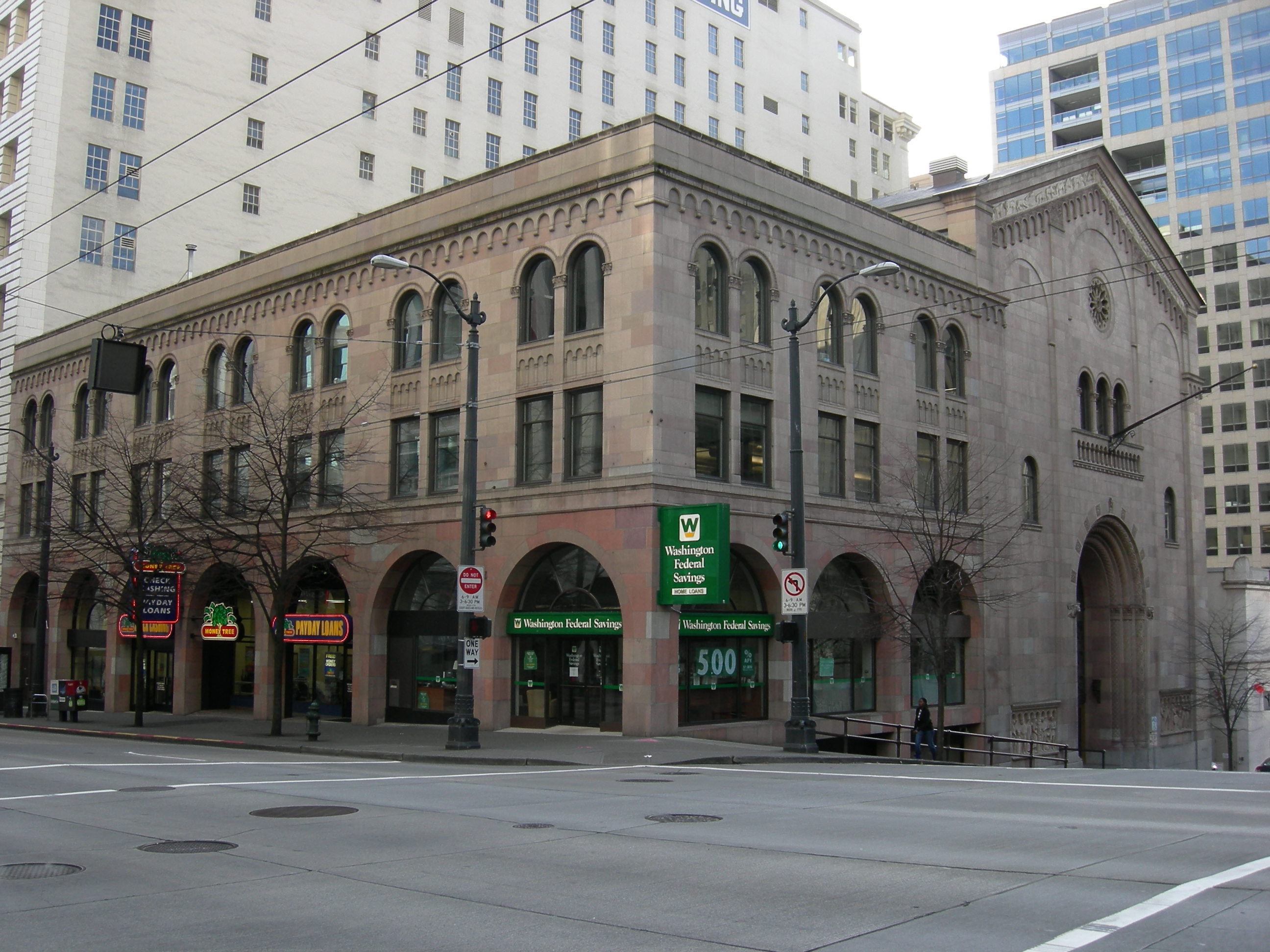 215 Columbia Street, Seattle, Washington, originally (1924) the Seattle Chamber of Commerce building, now (2007) Northwest Title Insurance Company. See Summary for 215 Columbia ST / Parcel ID 0939000245, Seattle Department of Neighborhoods for further information.